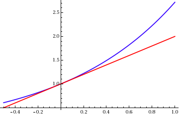 in blue with the linear approximation at , in red. Created in Mathematica.